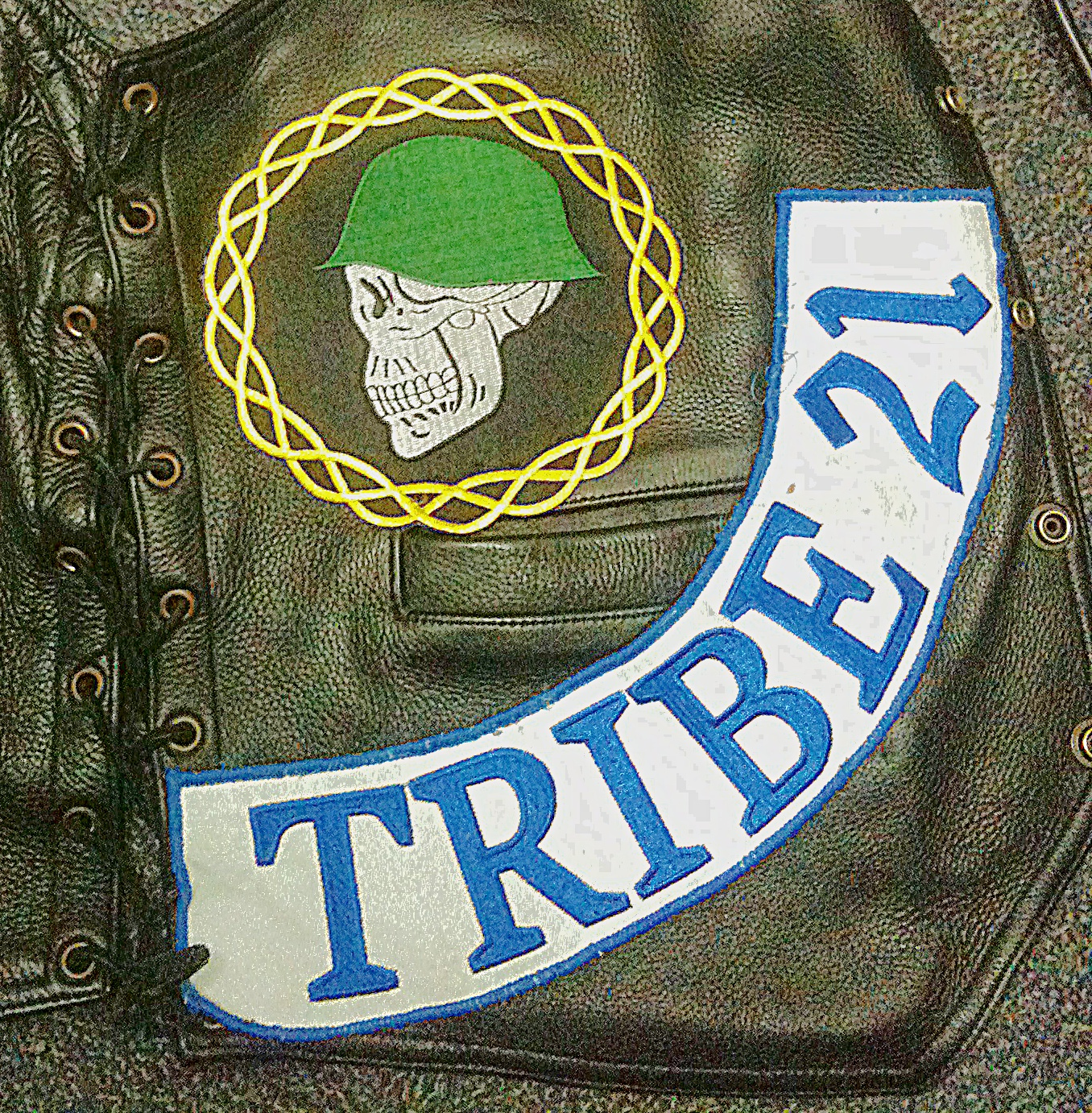 our patches